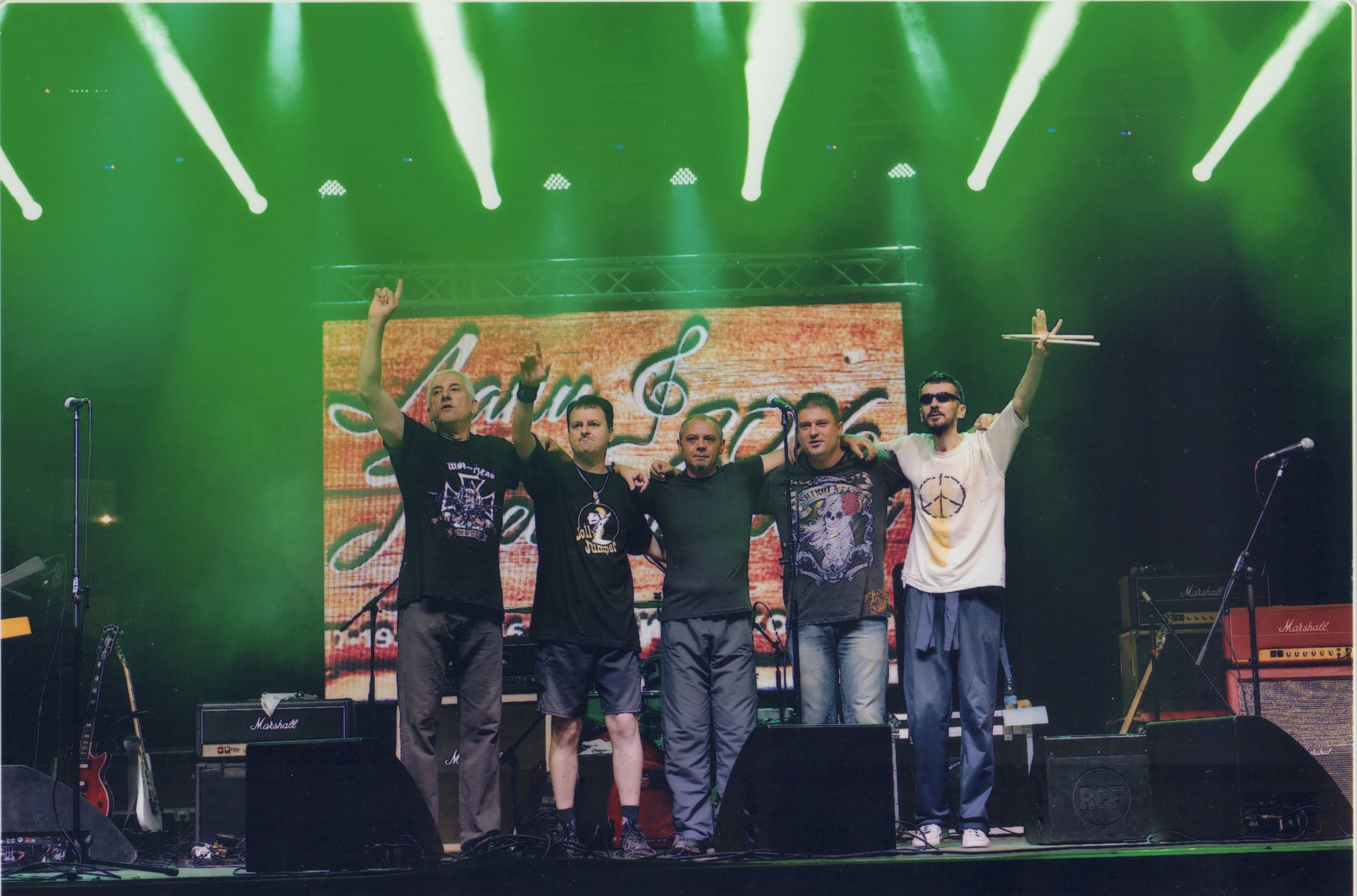 Jolly Jumper - rok grupa, 2016.